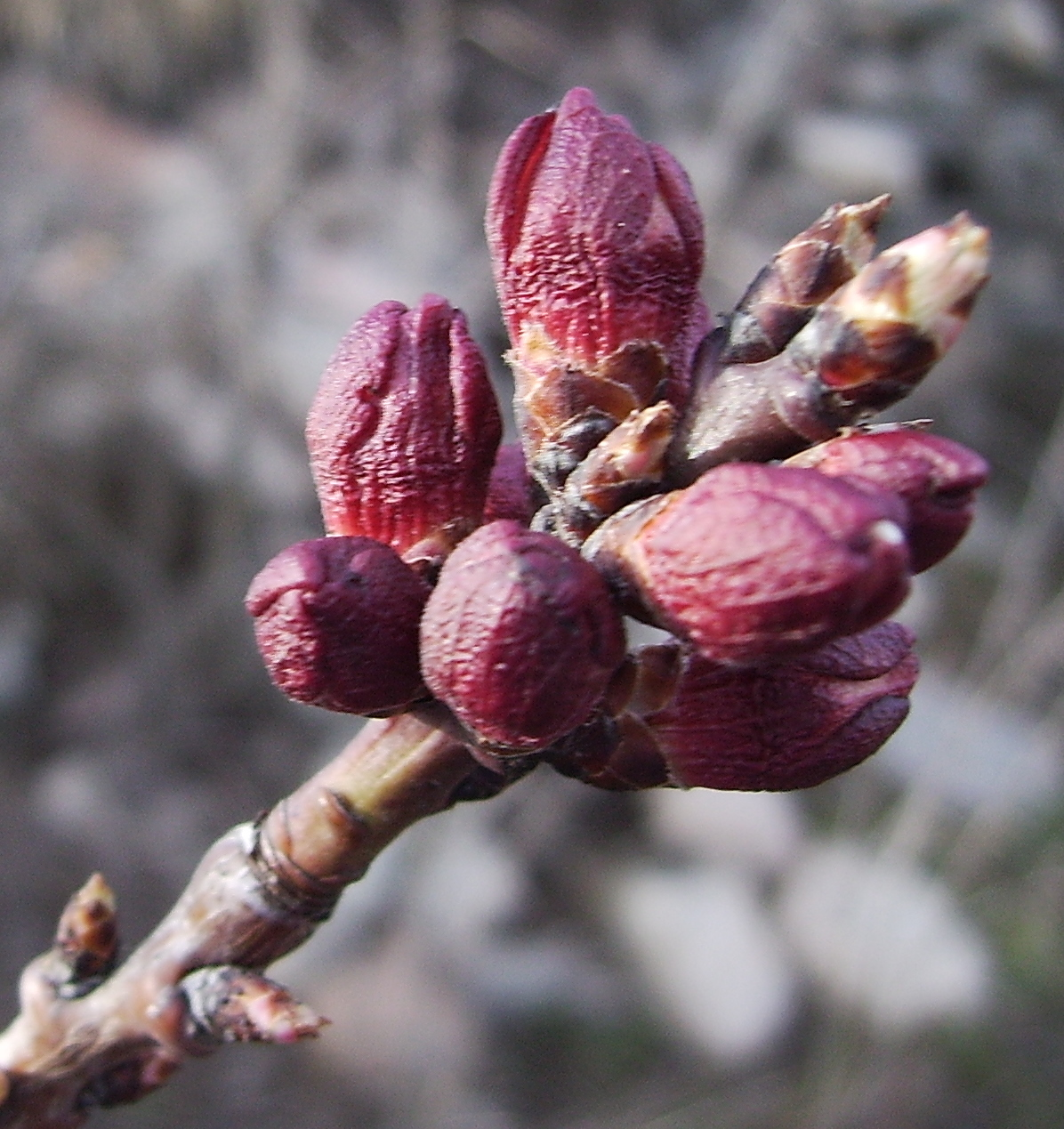 Buds of Prunus armeniaca cultivar Luizet, Castelltallat, Catalonia